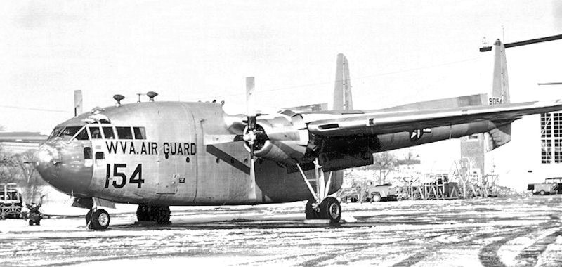 167th Air Transport Squadron Fairchild C-119C-14-FA Flying Boxcar 49-154 WV ANG. Retired to AMARC Sep 28, 1965